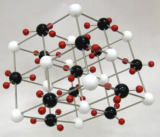 Structure of the calcite polymorph of CaCO3